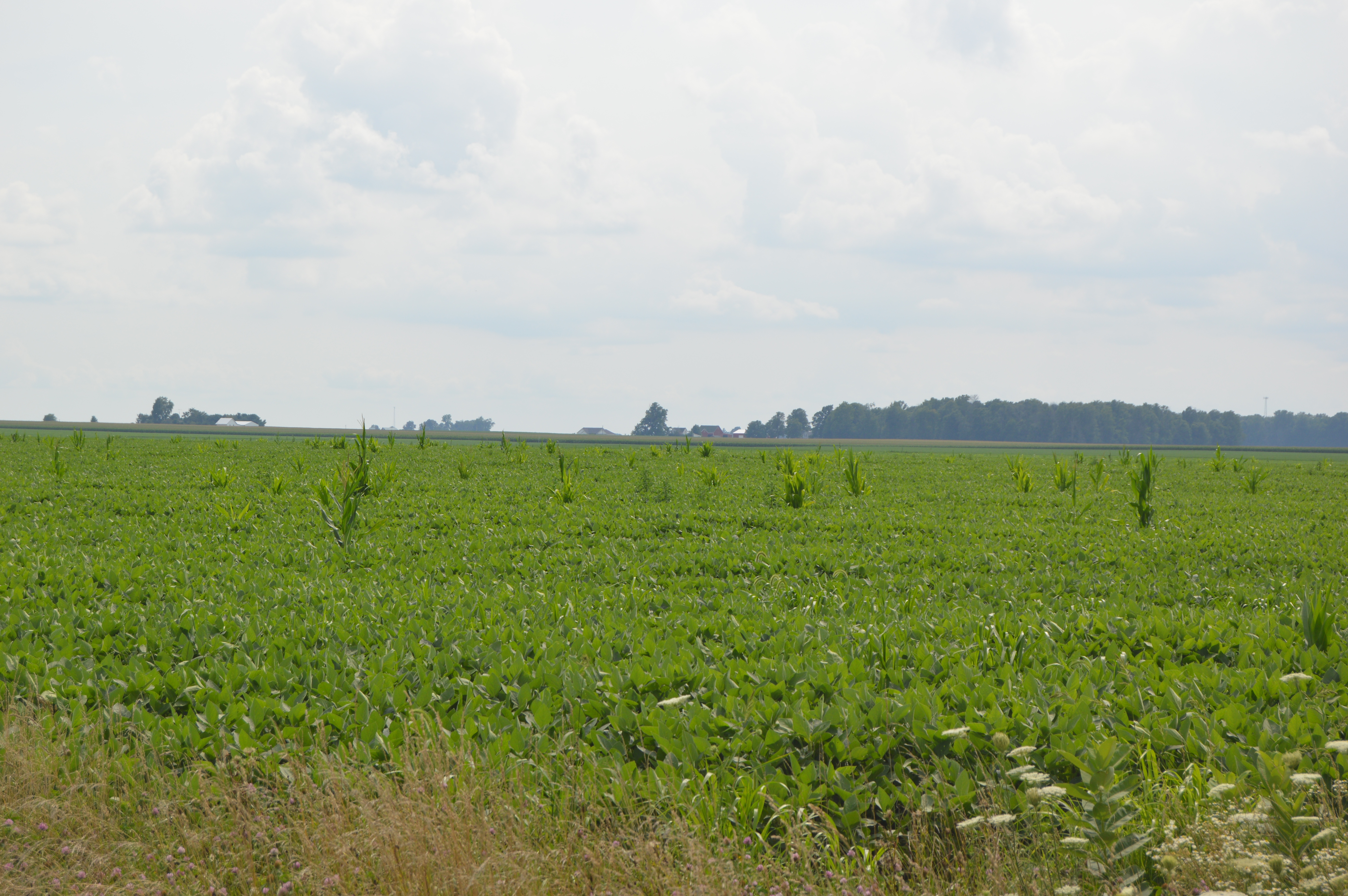 Maize plants growing in a soybean field on the western side of S150W immediately south of State Road 18 just west of Flora in Monroe Township, Carroll County, Indiana, United States.